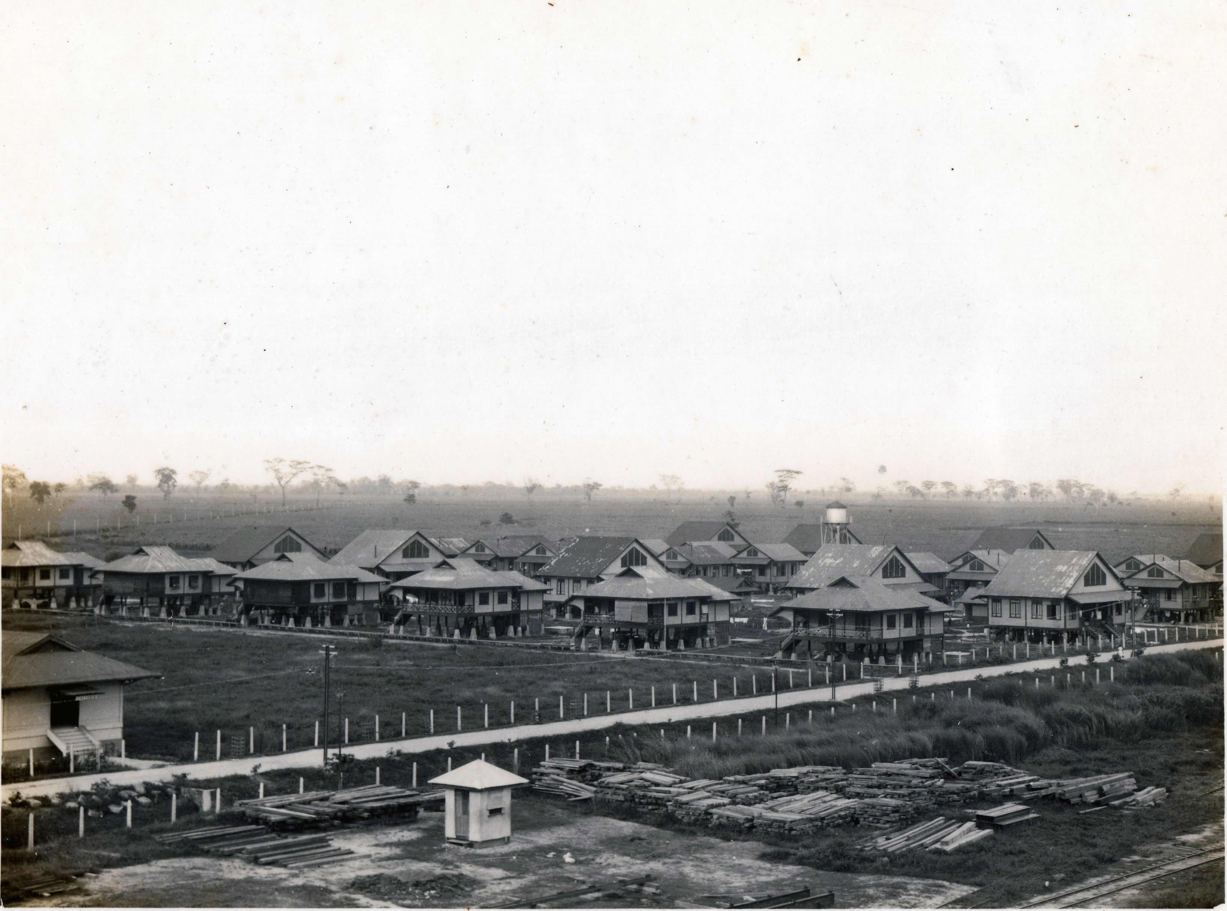 Factory laborers quarters at Tarlac, with cane areas of Hacienda Luisita in background. This plantation comprises 11,000 H.A. of which 8,000 are cleared and 5,000 now in cane. Eleven thousand people live on the estate. (Neg. No. 335. July 11, 1929. R.D. Rands).